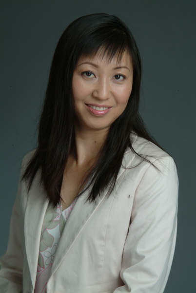 Picture of Zeng Xiao Wen, Chinese-Canadian author